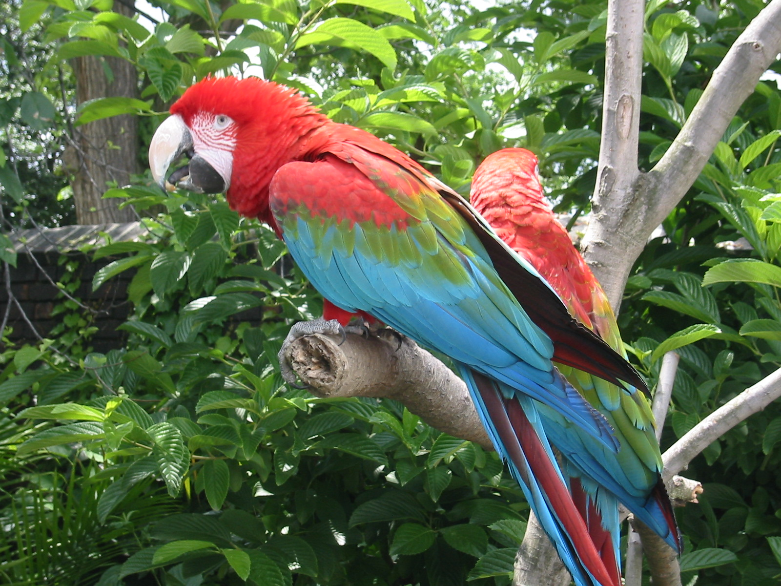 The Green-winged Macaw or Red-and-green Macaw (Ara chloropterus).